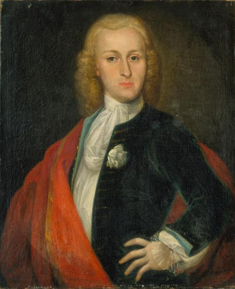 Museu Nacional de Soares dos Reis